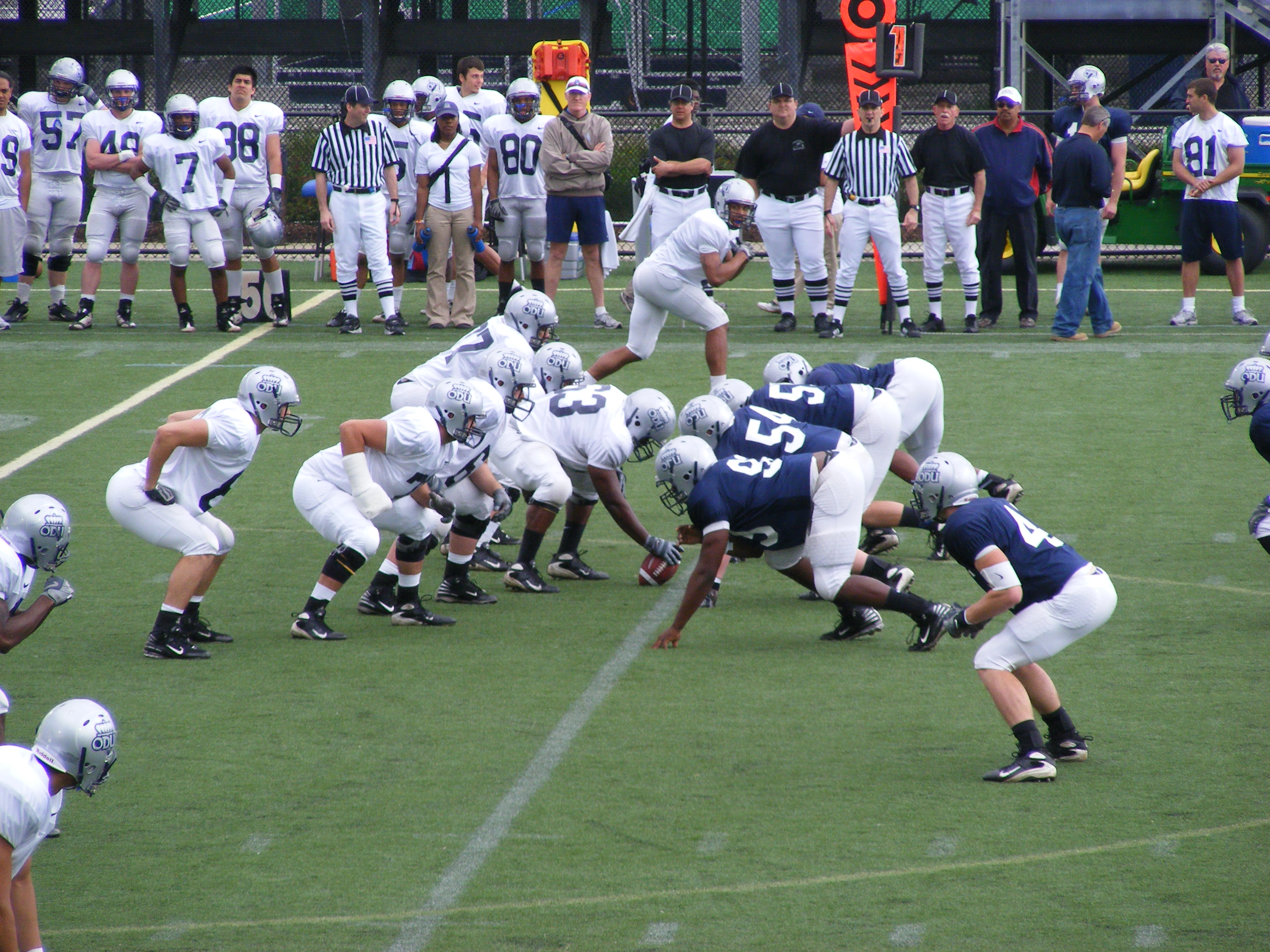 The 2009 Old Dominion Monarchs football spring game at Powhatan Field in Norfolk, Virginia